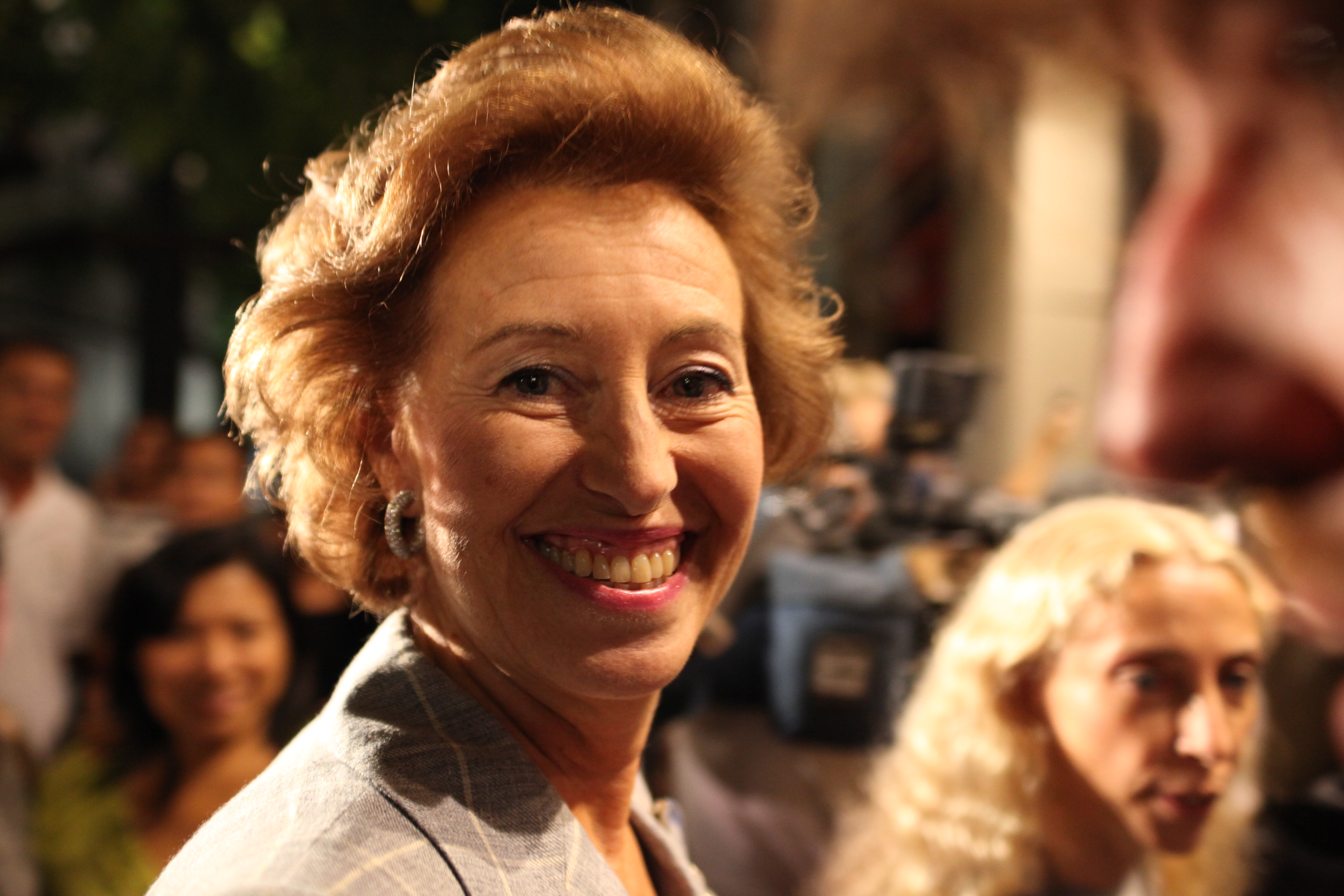 Vogue Fashion's Night Out Sept.10 2009 MILANO